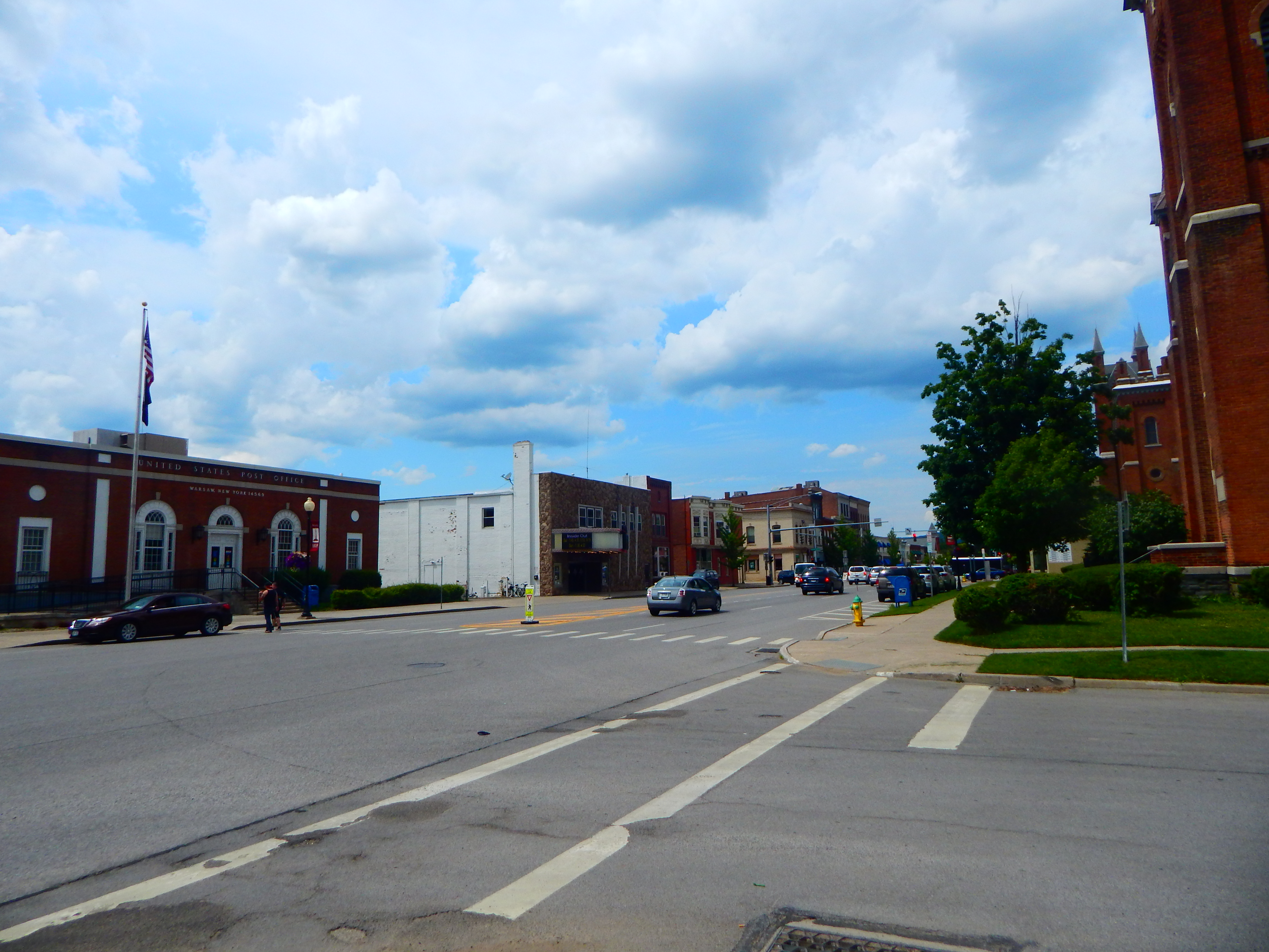 Route 19 northbound through downtown Warsaw, New York.